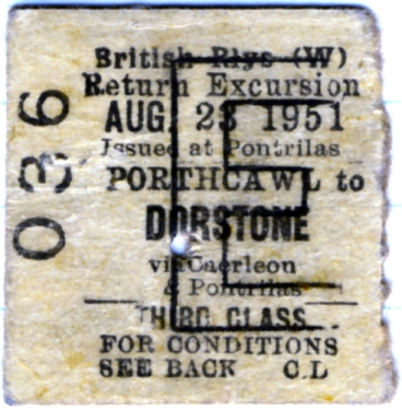 David Phillips, Original ticket owned and scanned by me.